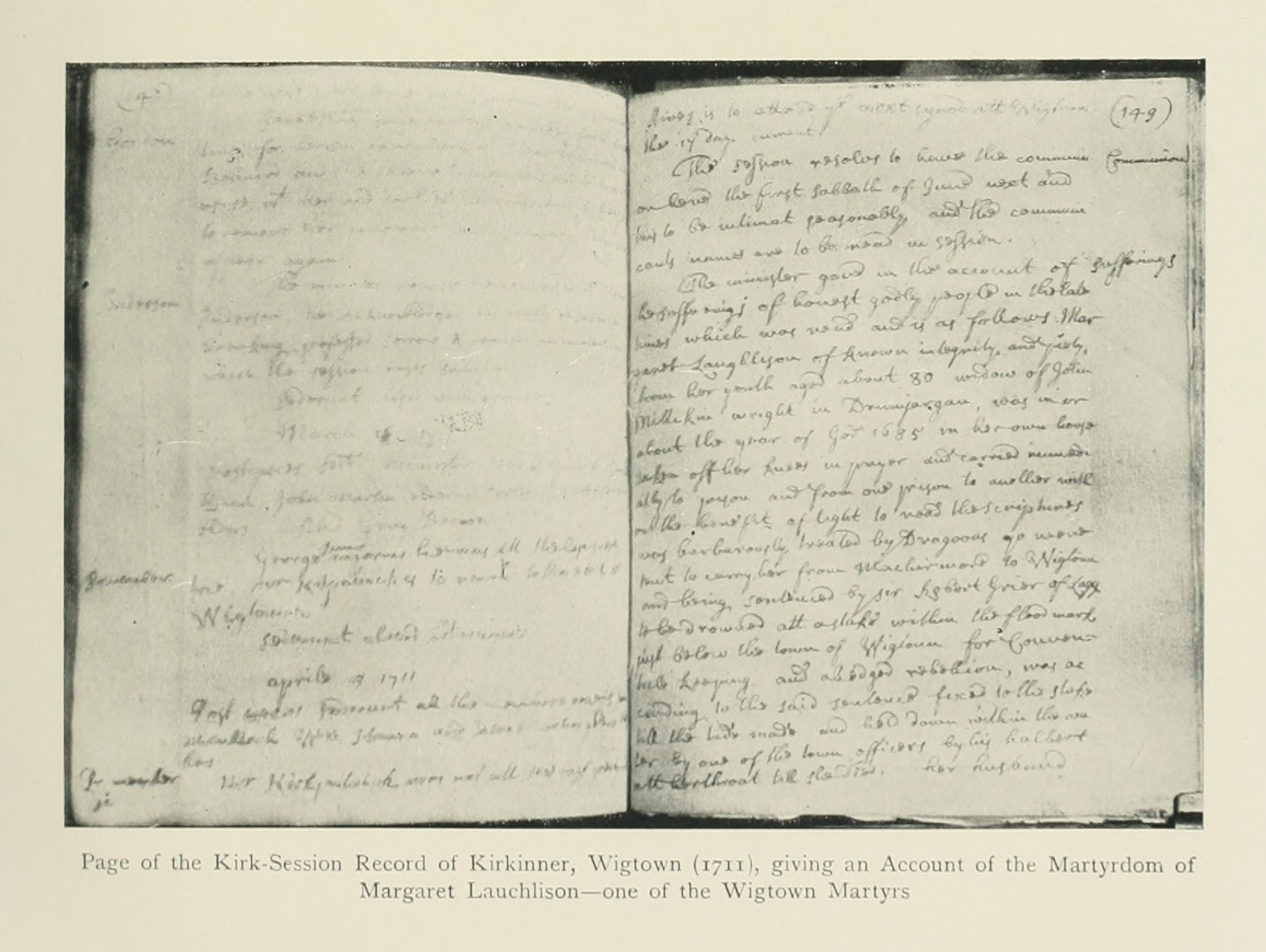 Page of the Kirk Session records of Kirkinner, Wigton (1711), giving on Account of the Martyrdom of Margaret Lauchlison — one of the Wigtown Martyrs